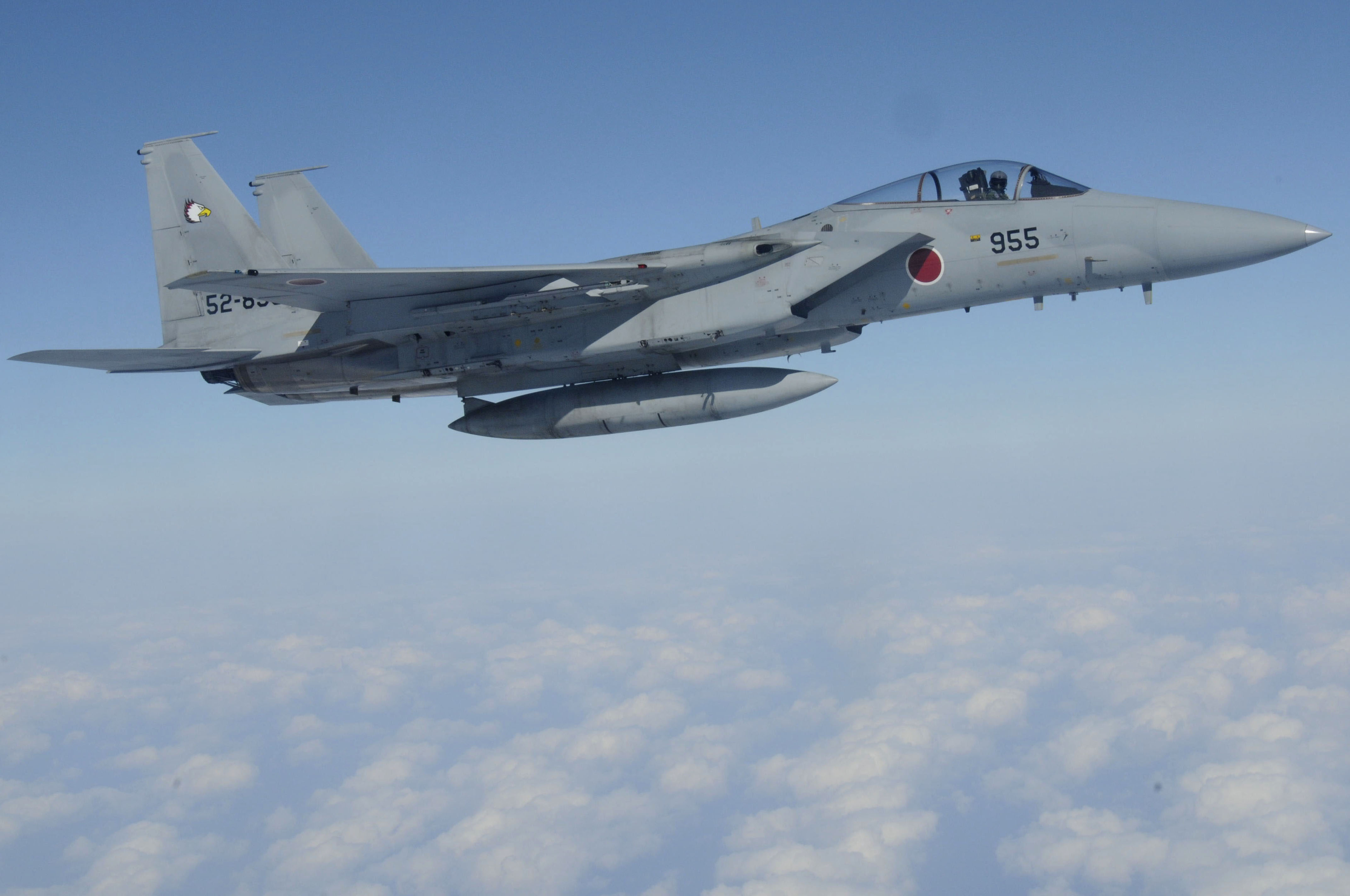 An F-15J (955) of 204 Sqn flies through the air during the joint refueling training between the 909th Refueling Squadron and Japan Air Self Defense Forces, Dec. 17. This training improved bilateral relationships between the 18th Wing and JASDF members. (U.S. Air Force photo/Staff Sgt. Darnell T. Cannady) Nikon D300